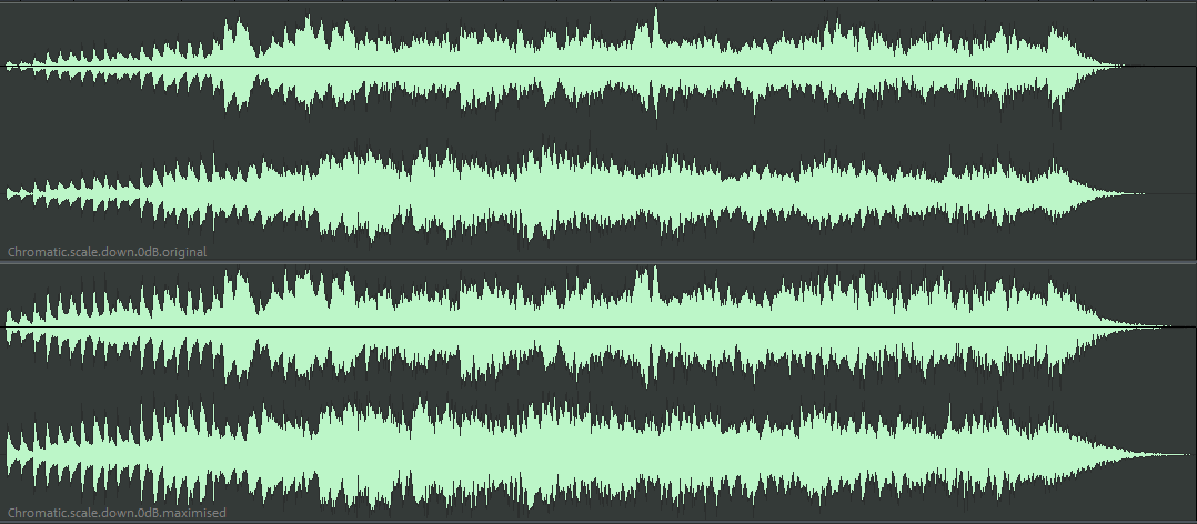 Comparison of chromatic scale down (digital piano) with maximum recording level: linear (upper graph); enhanced loudness (lower)